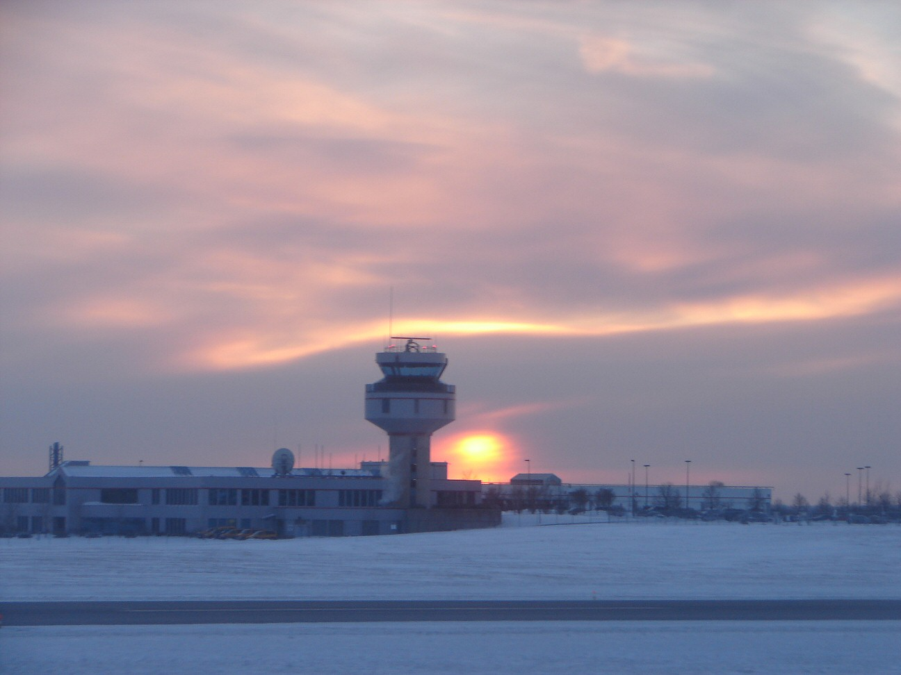 Control tower of MacDonald-Cartier International Airport, Ottawa, Ontario, Canada